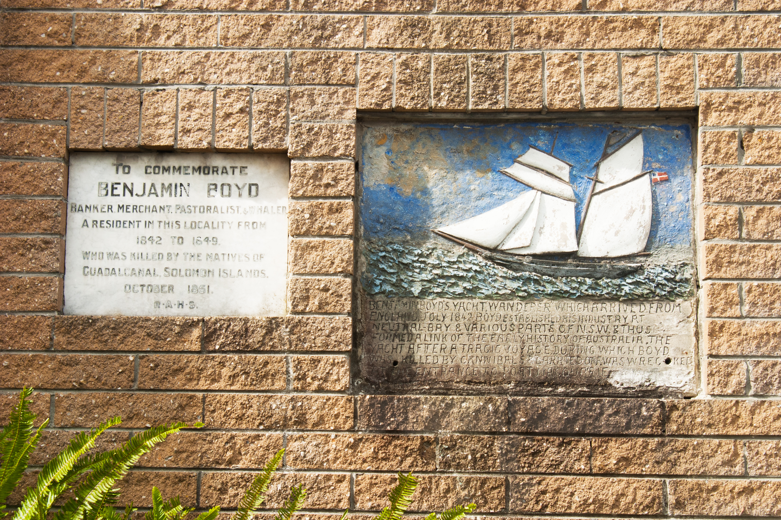 Commemorative plaque at Ben Boyd Road, Neutral Bay, NSW, Australia. Wording on the left plaque reads: "To commemorate Benjamin Boyd, Banker, Merchant, Pastoralist, & Whaler. A resident in this locality from 1842 to 1849. Who was killed by the natives of the Guadalcanal, Solomon Islands. October 1851. R.A.H.S." Wording on the right plaque reads: "Benjamin Boyd's yacht, Wanderer, which arrived from England, July 1842. Boyd established his industry at Neutral Bay & various parts of N.S.W. & thus formed a link of the early history of Australia. The yacht after a tragic voyage, during which Boyd was killed by cannibals & carried off, was wrecked at the entrance to Port Macquarie."